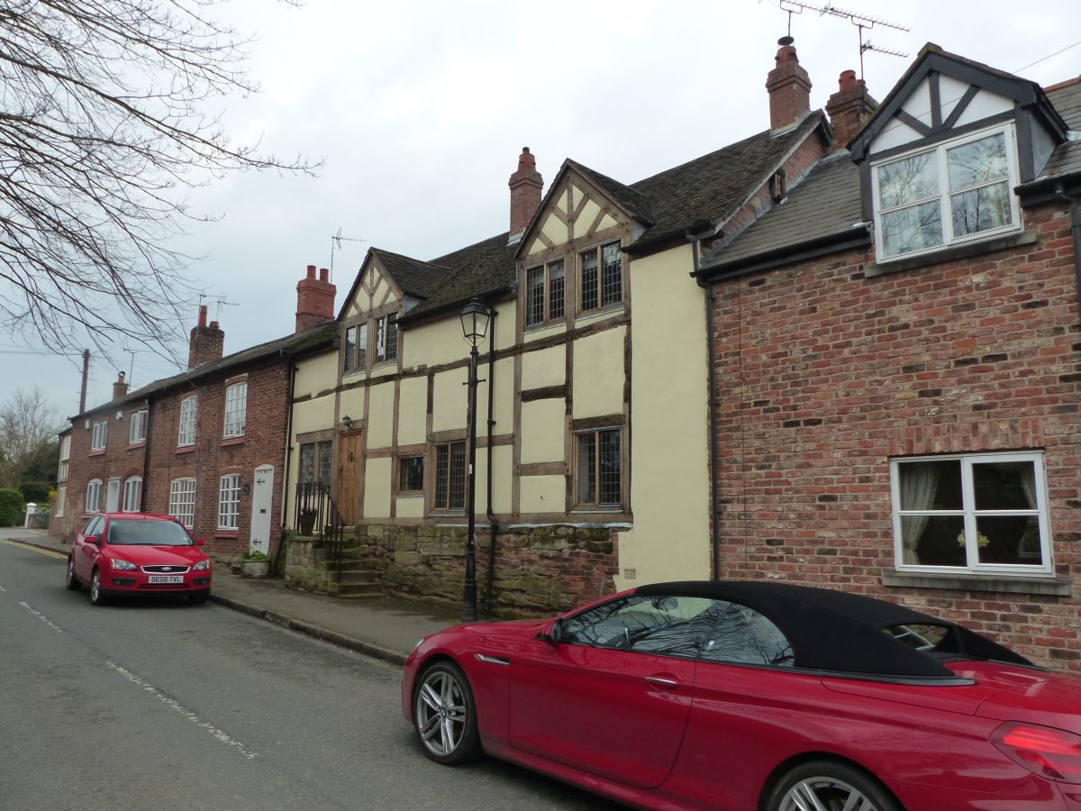 Grade II listed house in Tarvin, Cheshire.